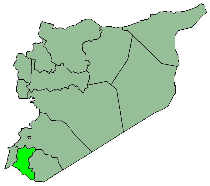 The Syrian governorate of Daraa.